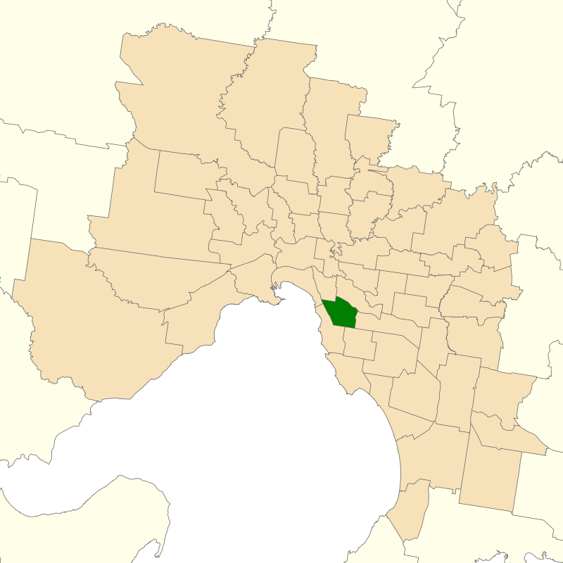 Location of the Victorian electoral district of Caulfield (dark green) in the Greater Melbourne area.